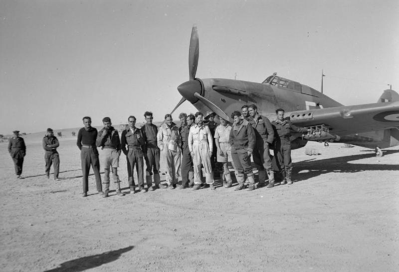 Royal Air Force Operations in the Middle East and North Africa, 1939-1943. Pilots of No. 80 Squadron RAF gather in front of one of their Hawker Hurricane Mark Is at a landing ground in the Western Desert, during Operation CRUSADER. In the middle of the group, wearing a white flying overall and smoking a pipe, is Squadron Leader M M Stephens, who commanded the Squadron from November until 9 December 1941 when he was shot down and wounded. During CRUSADER, 80 Squadron acted in close support of the Army, their Hurricane fighters being fitted with bomb racks to carry four 40 lb GP bombs, as seen here. Their first effective sorties as fighter-bombers were conducted against enemy vehicles south of Bir el Baheira on 20 November.